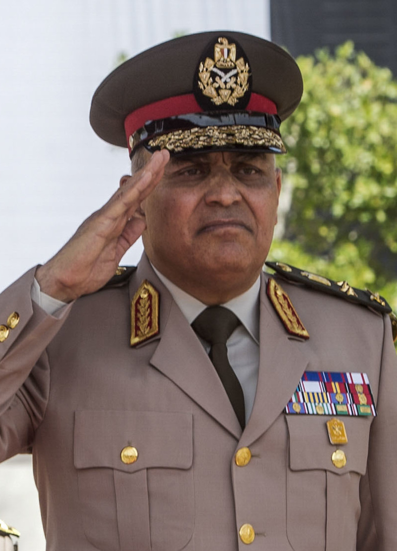 Egypt’s Minister of Defense Sedki Sobhy hosts an enhanced honor cordon for Secretary of Defense Jim Mattis at the Ministry of Defense in Cairo, Egypt, April 20, 2017. (DOD photo by U.S. Air Force Tech. Sgt. Brigitte N. Brantley)